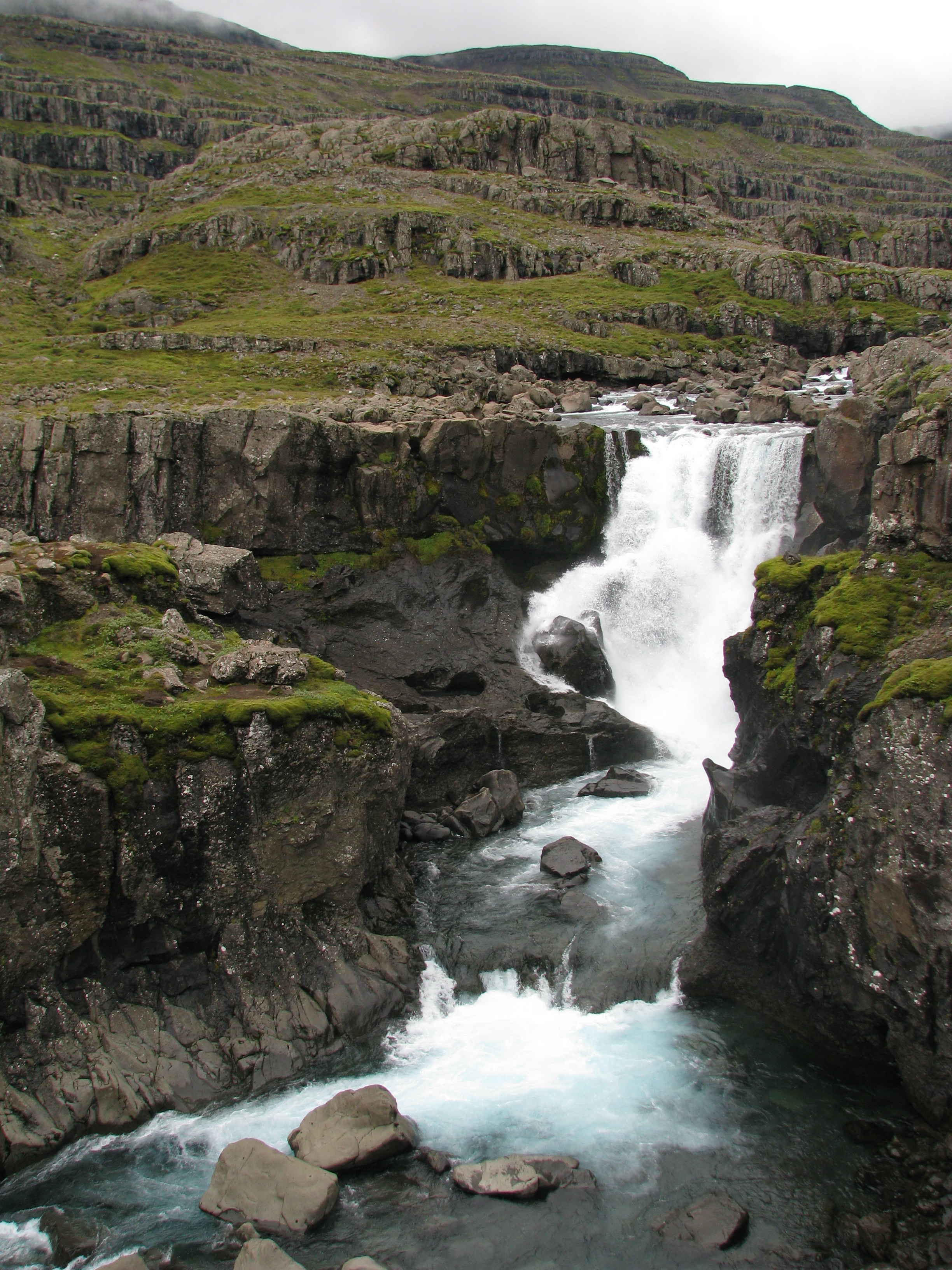 Fossárfoss, waterfall, Iceland